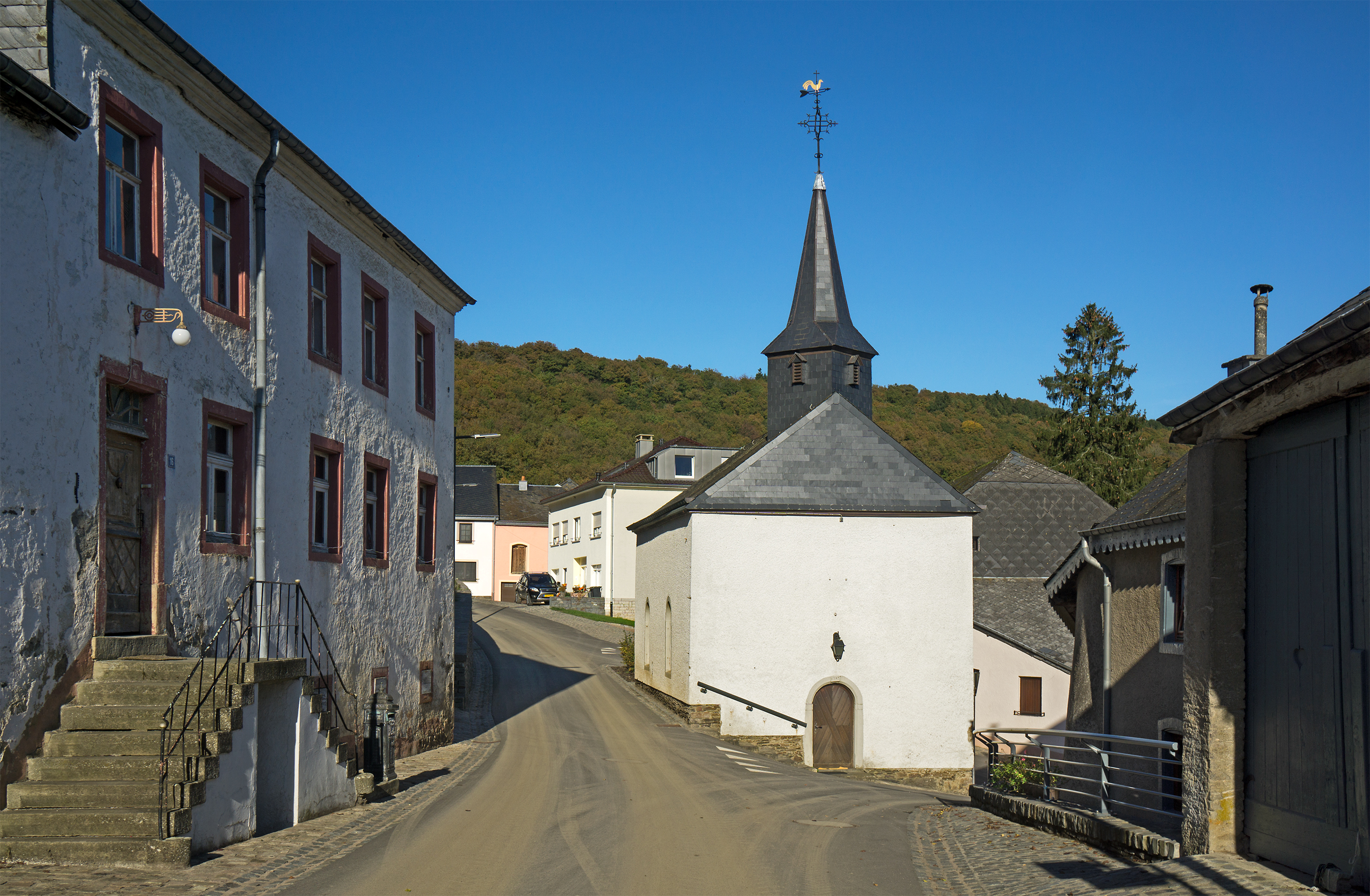 church of Siebenaler